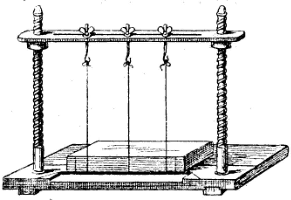 Sewing frame for bookbinding